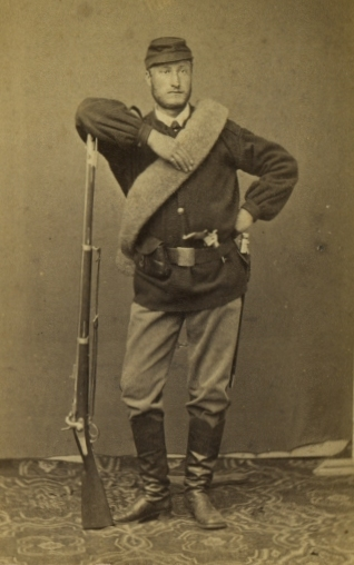 French soldier hold a Minié rifle